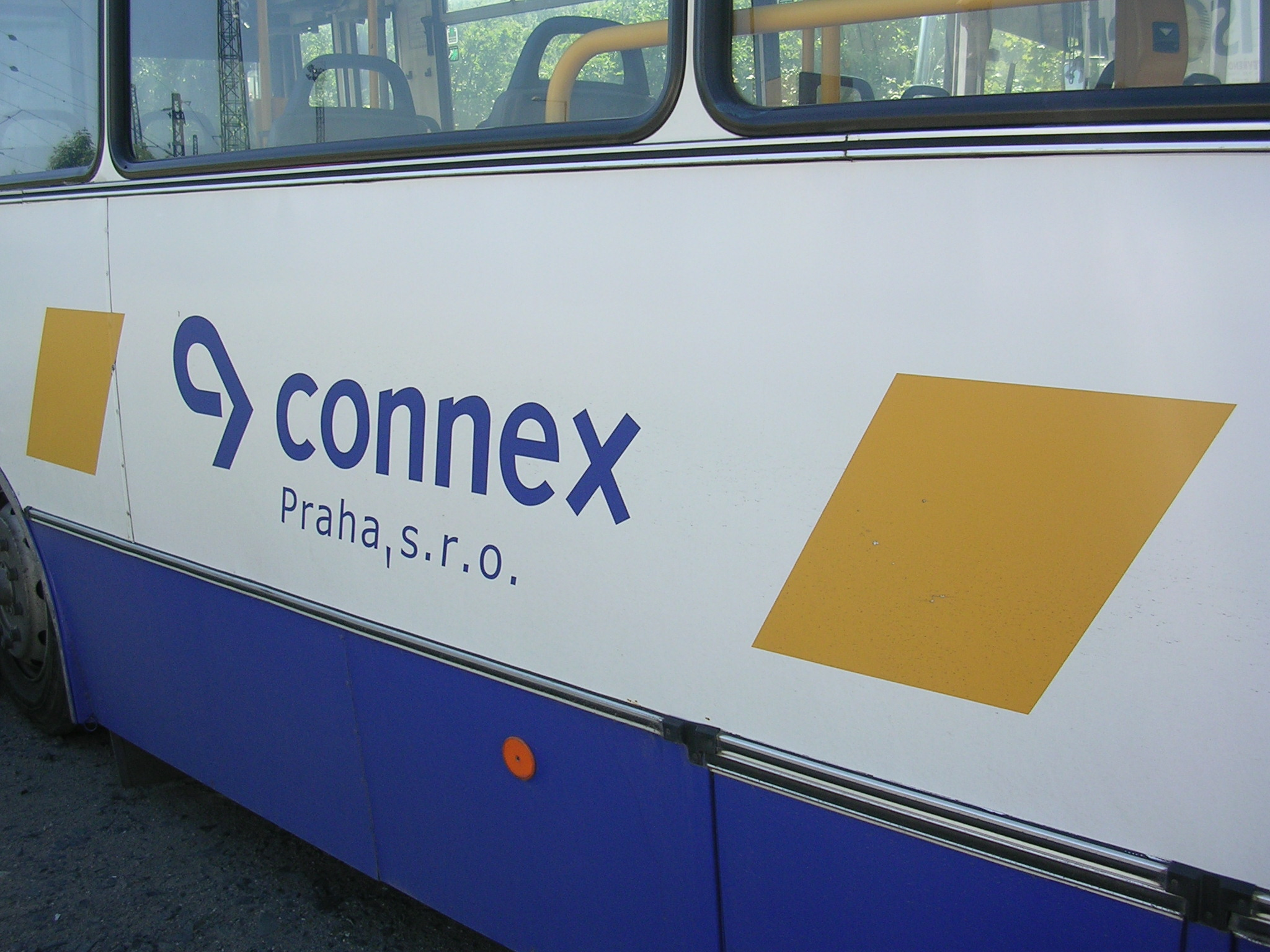 Vršovice, Prague, the Czech Republic. Bus Depot of Connex Praha s. r. o., U seřadiště Street.